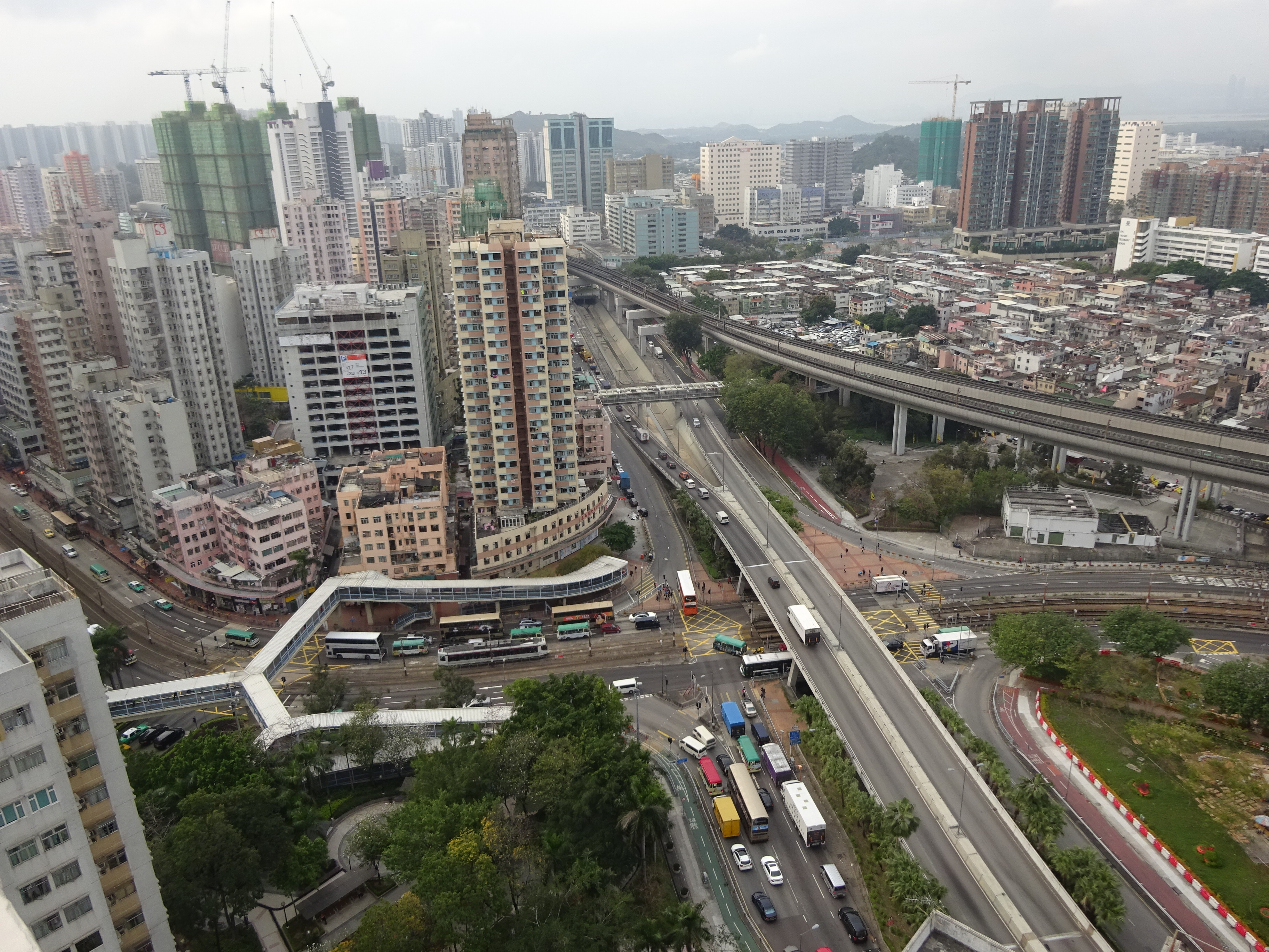 HK Yuen Long 順豐大廈 Shun Fung Building view 尚豪庭 One Regent Place Mar-2016 Long Yip Street On Lok Road Yuccie